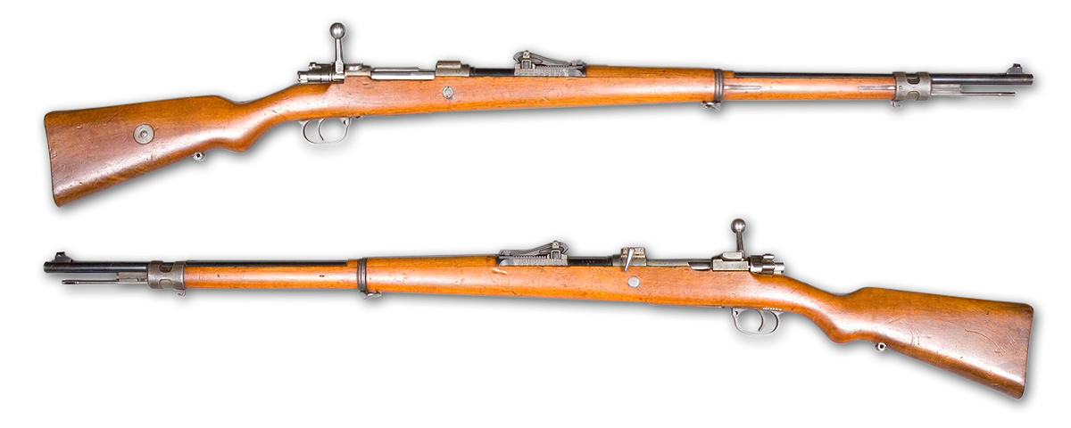 New version of the photo " with removed background, removed archive label and added technical shadow.